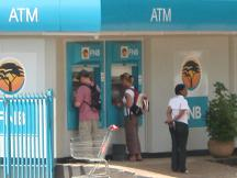 This image shows the atms of the FNB bank in kasane. The atms are located by the choppies mall which is opposite the chobe safari lodge.